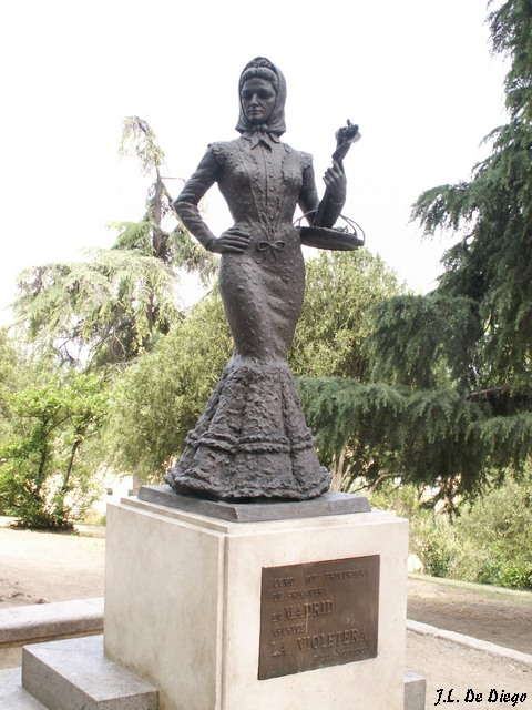 The Monument Gardens Violetera in the Vistillas. Made by sculptor Santiago Santiago opened in 1991 in the Calle de Alcala, although settled in Las Vistillas on 13 June 2003. The Violetera is a famous song by Jose Padilla Sanchez (1889-1960).